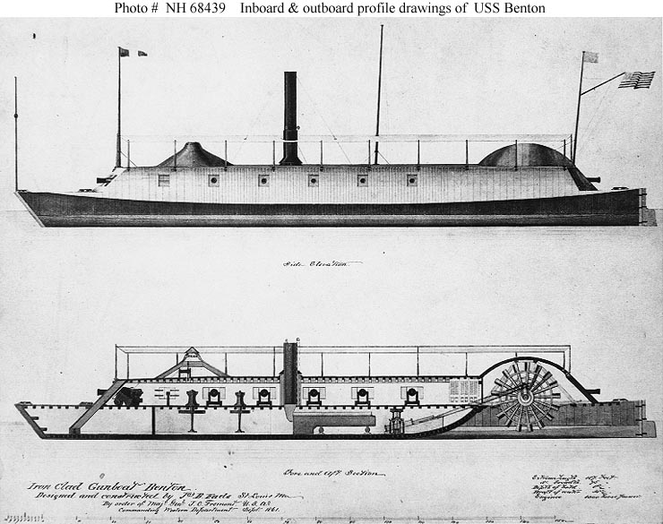 Originale nboard and outboard drawings of USS Benton, c. 1861